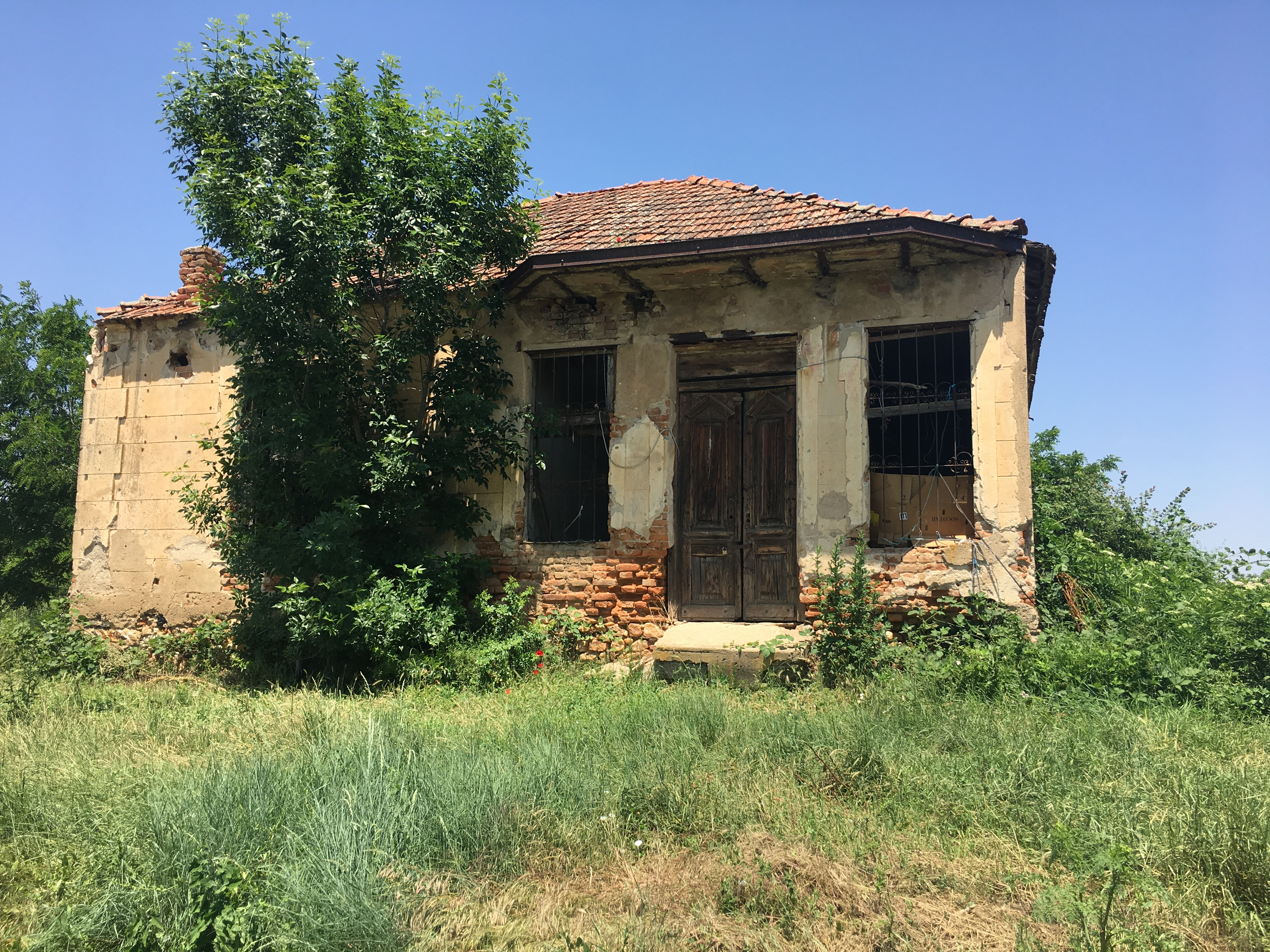 A neglected house in the village of Radobor